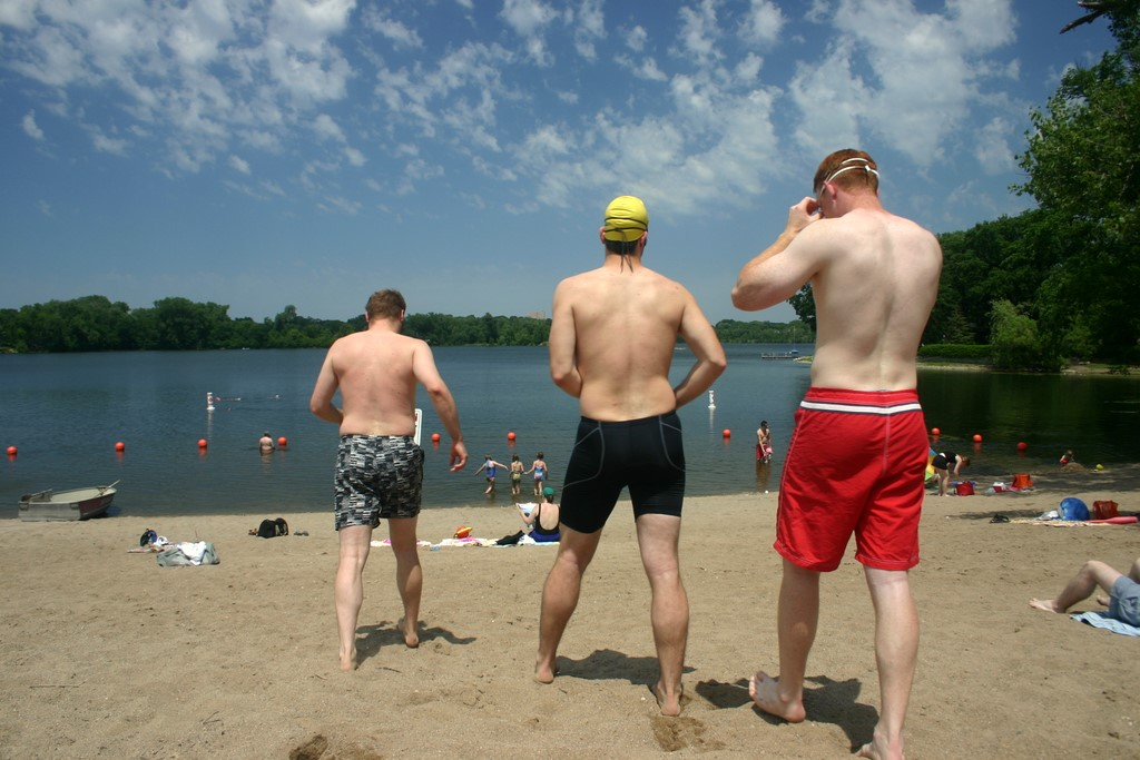 Beach at Cedar Lake (Minnesota), Minneapolis, Minnesota